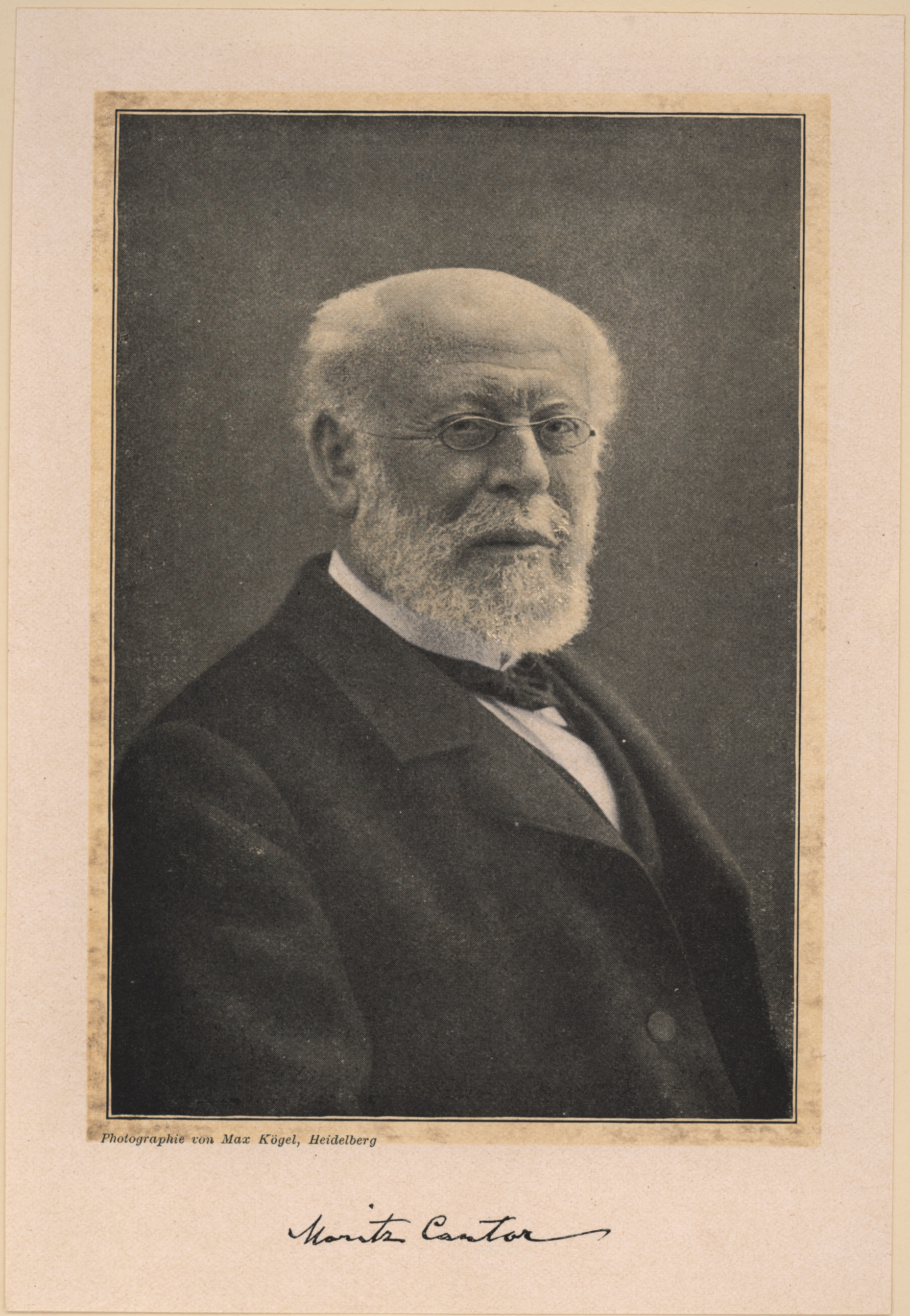 Creator/Photographer: Max Kögel Medium: Medium unknown Dimensions: 16.5 vm x 11.5 cm Date: Prior to 1920 Collection: Scientific Identity: Portraits from the Dibner Library of the History of Science and Technology - As a supplement to the Dibner Library for the History of Science and Technology's collection of written works by scientists, engineers, natural philosophers, and inventors, the library also has a collection of thousands of portraits of these individuals. The portraits come in a variety of formats: drawings, woodcuts, engravings, paintings, and photographs, all collected by donor Bern Dibner. Presented here are a few photos from the collection, from the late 19th and early 20th century. Persistent URL: [1] Repository: Smithsonian Institution Libraries Accession number: SIL14-C1-08